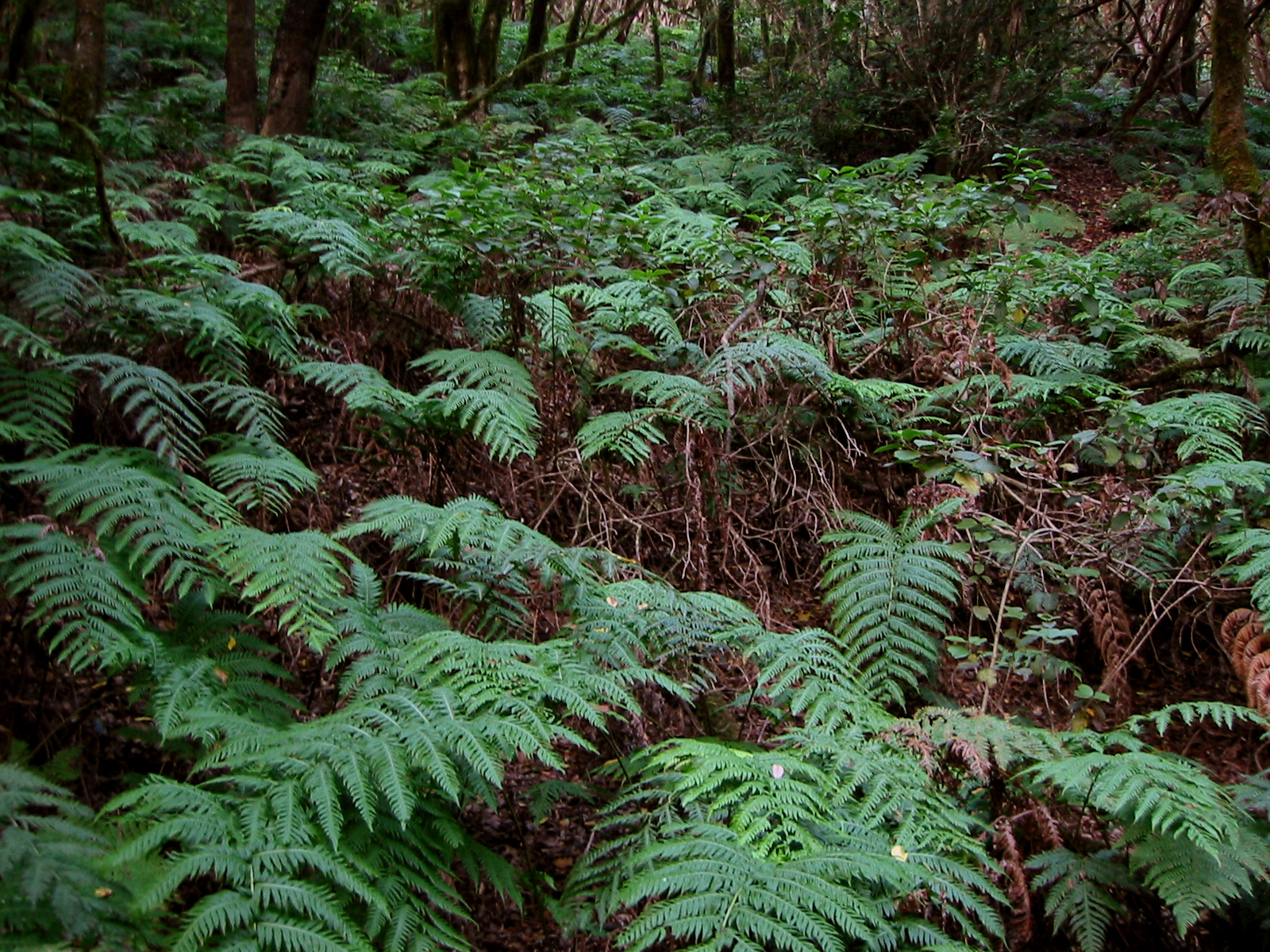 Woodwardia radicans in the laurisylva in Tenerif (Canaries islands)